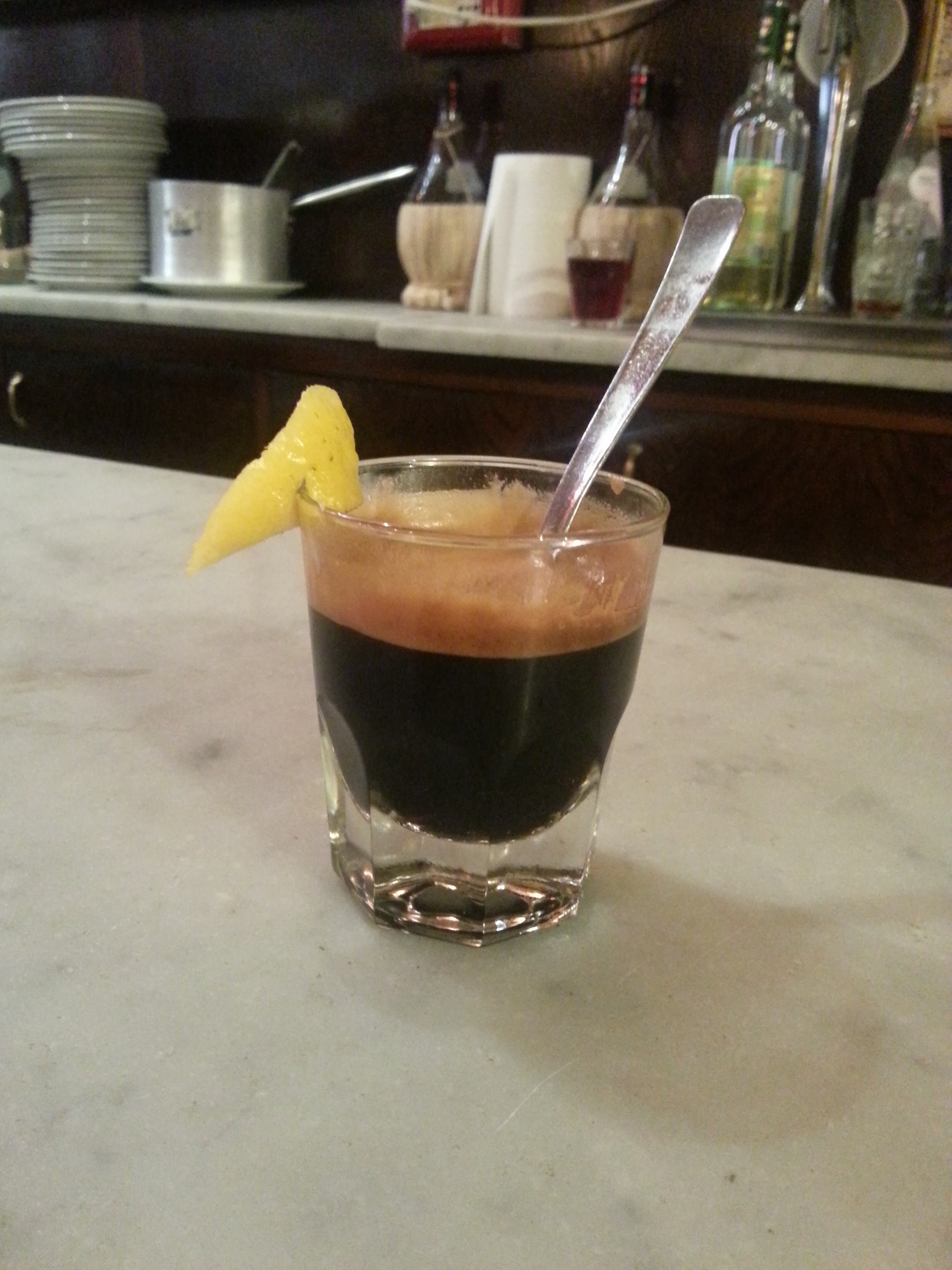 Typical glass (gottino) of ponce alla livornese with sail (lemon skin)